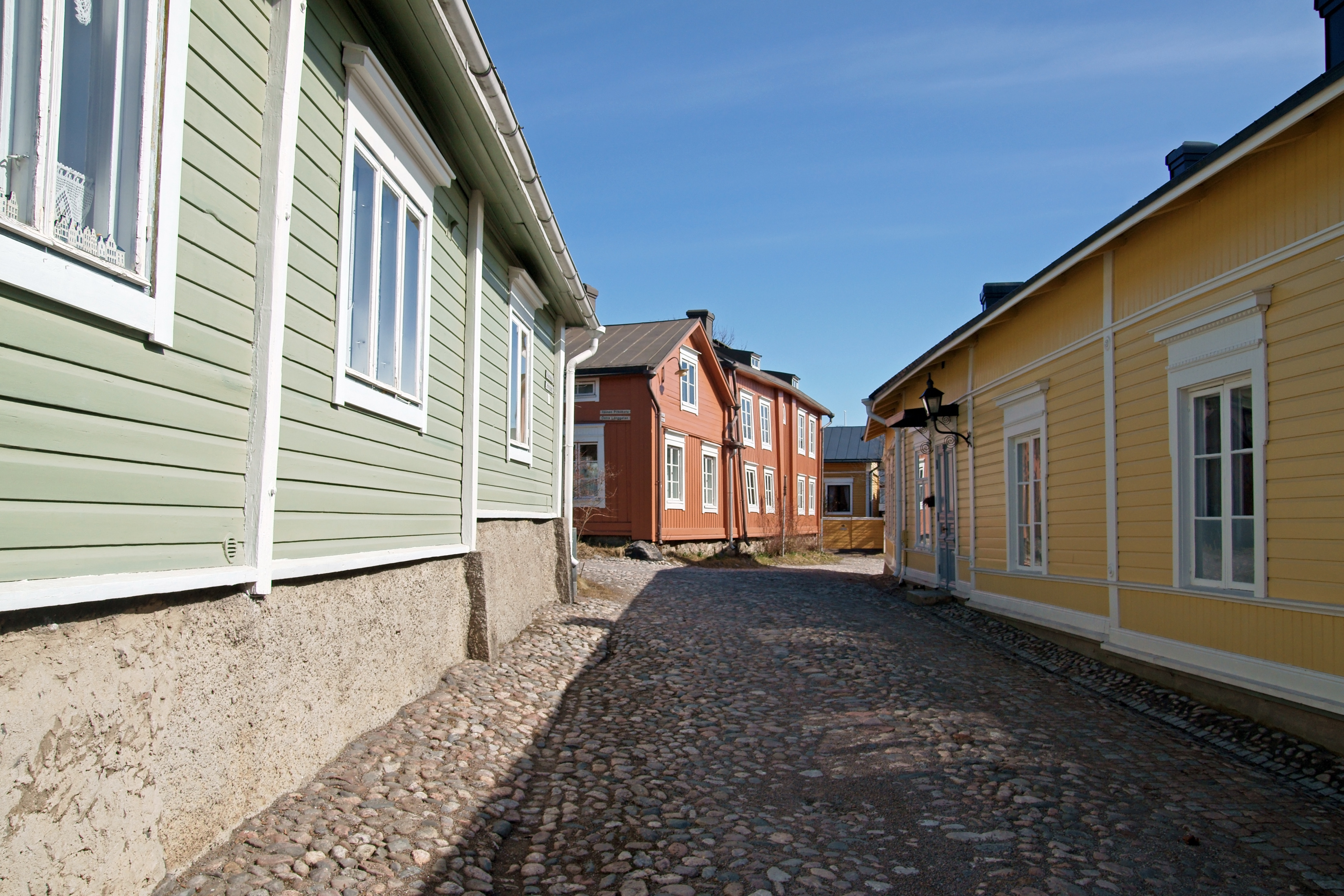 Houses in old Porvoo.